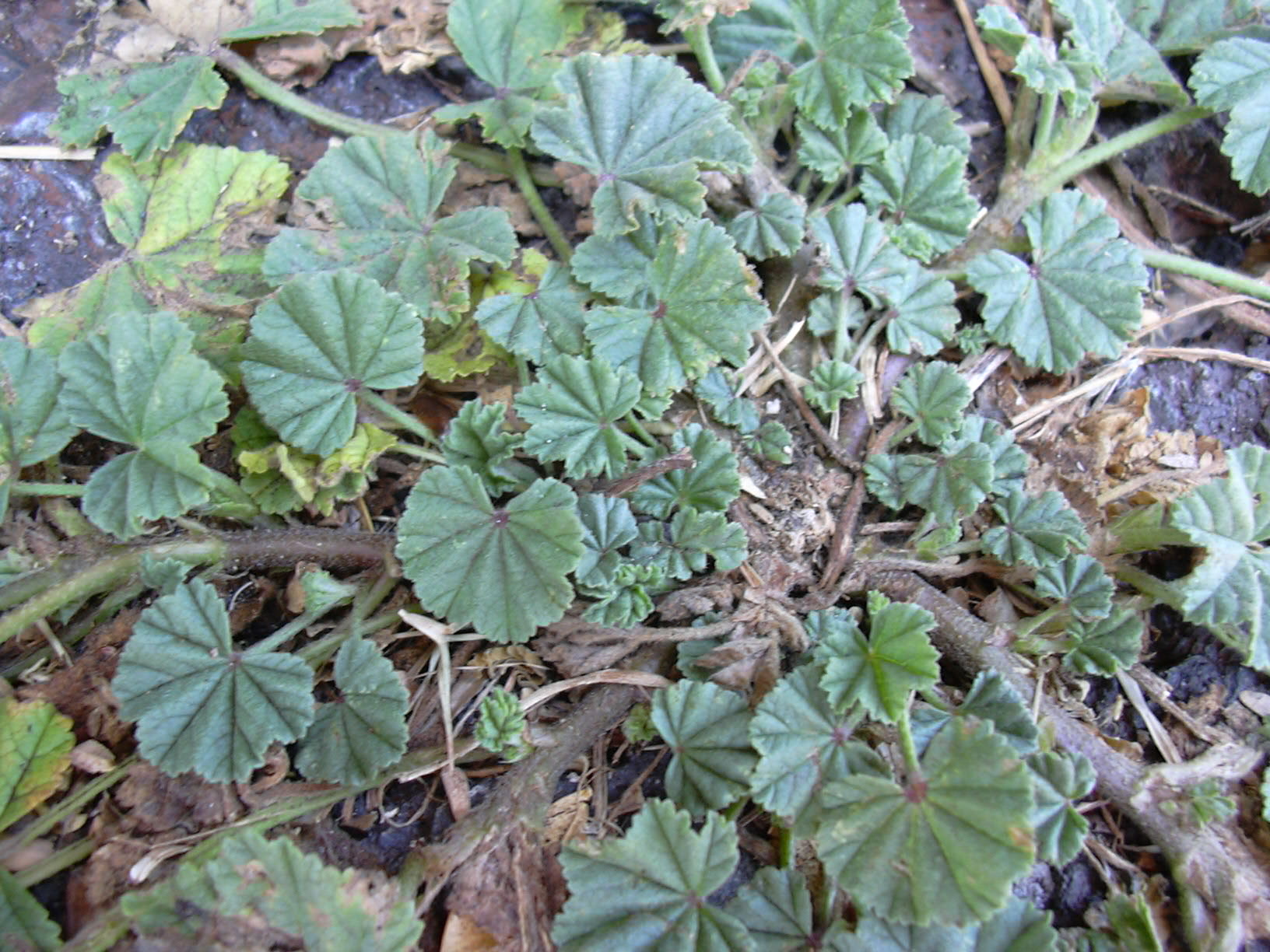 Malva parviflora (habit). Location: Maui, State nursery Kahului